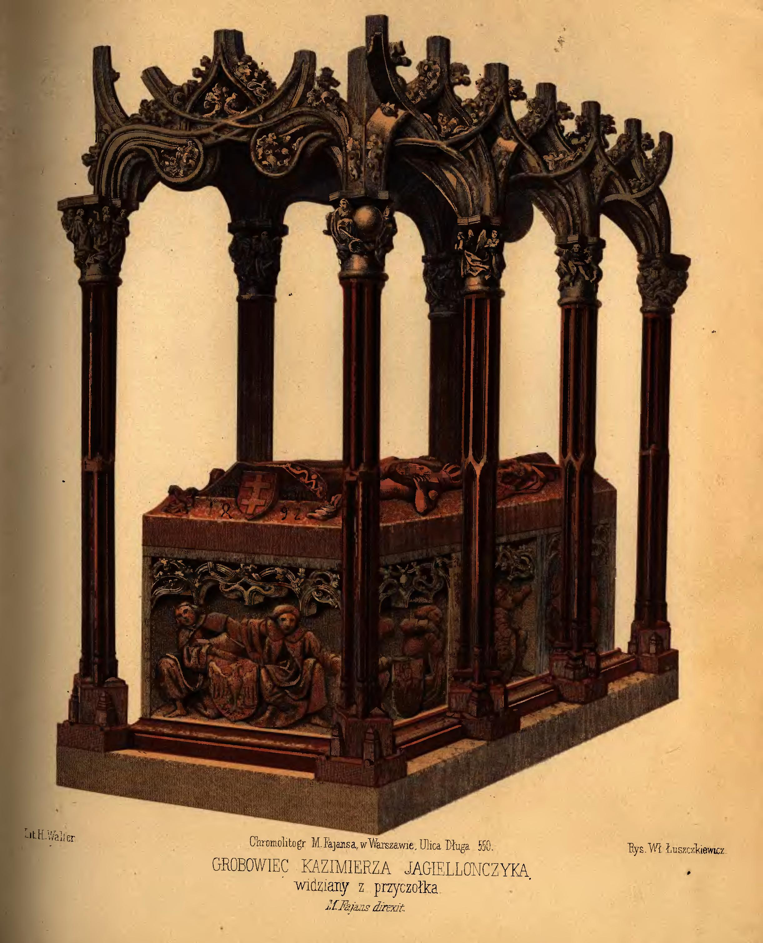 Tomb of Casimir IV Jagiellon, Wawel cathedral.